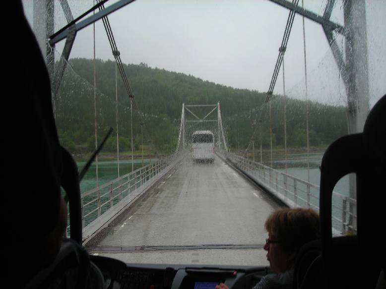 Bridge along Road 81 at Oppeid (Hamarøy) in Norway.